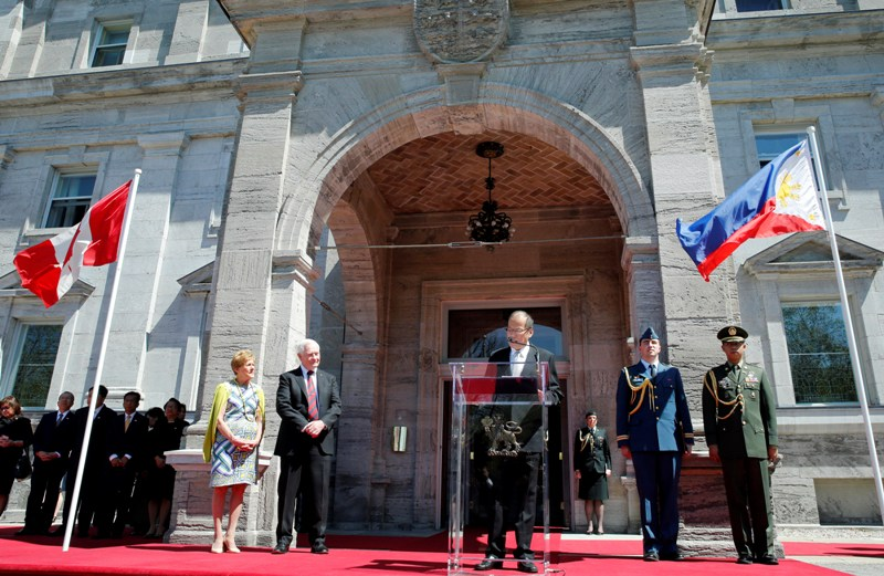 Philippine President Benigno Aquino III delivers his remarks on his state visit to Canada during the welcome ceremony hosted by Governor General David Johnston at the Rideau Hall in Ottawa on 7 May 2015.